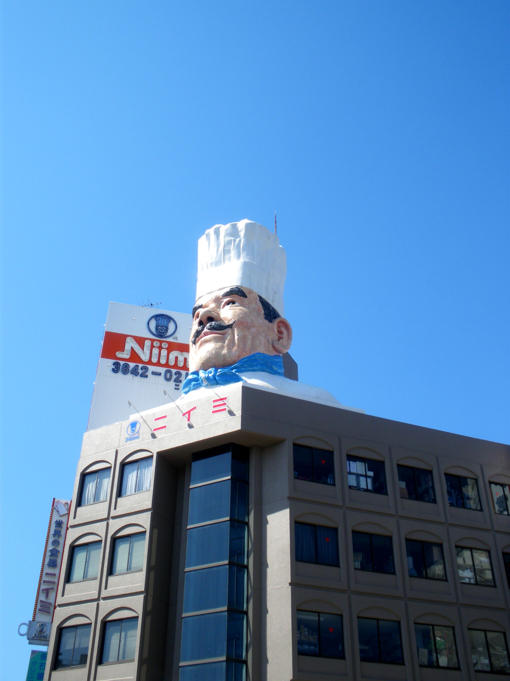 This is the landmark of Kappabashi shopping street.(near Asakusa, Tokyo.)